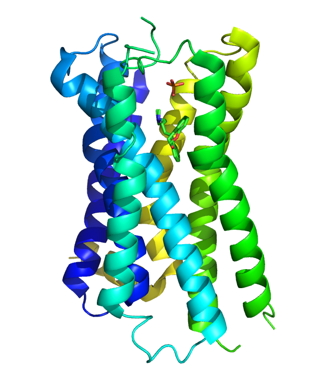 Crystal structure of human histamine H1 receptor in complex with doxepin(PDB entry 3RZE). Doxepin and phosphate anion are shown as ball and stick. T4 lysozyme, which was fused with the receptor to facilitate crystallization, is omitted for clarity.